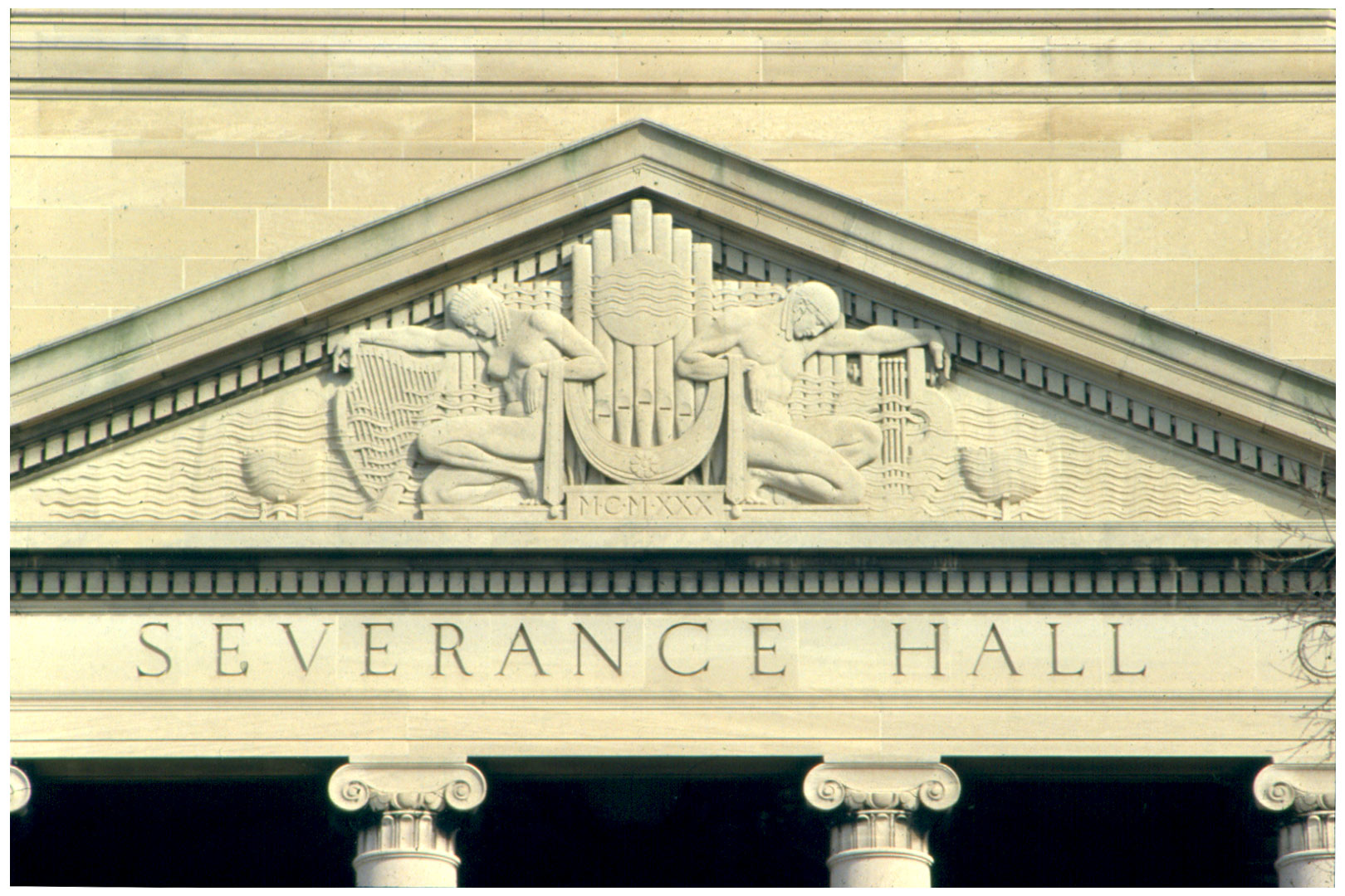 Image detail of the Severance Hall pediment, Cleveland, Ohio, The work is a publicly viewable sculpture by Henry Hering